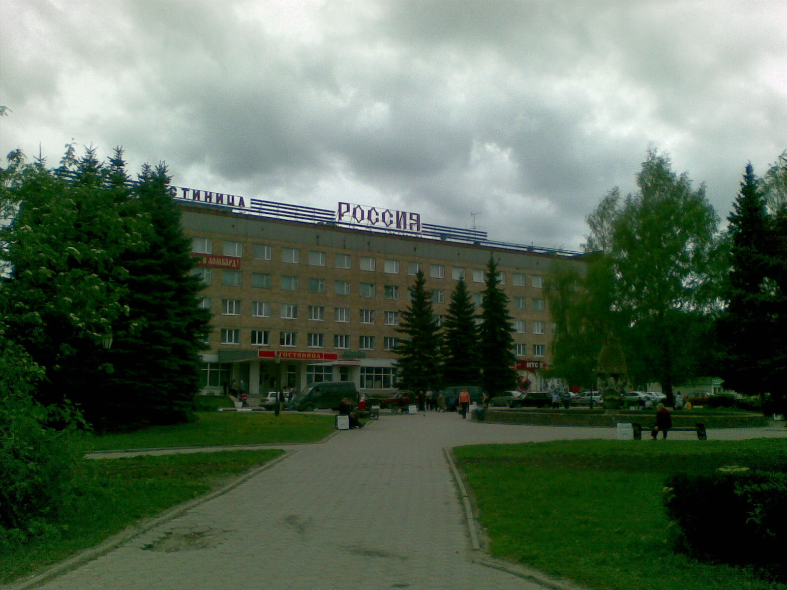 Hotel Rossiya, Novomoskovsk, Russia.